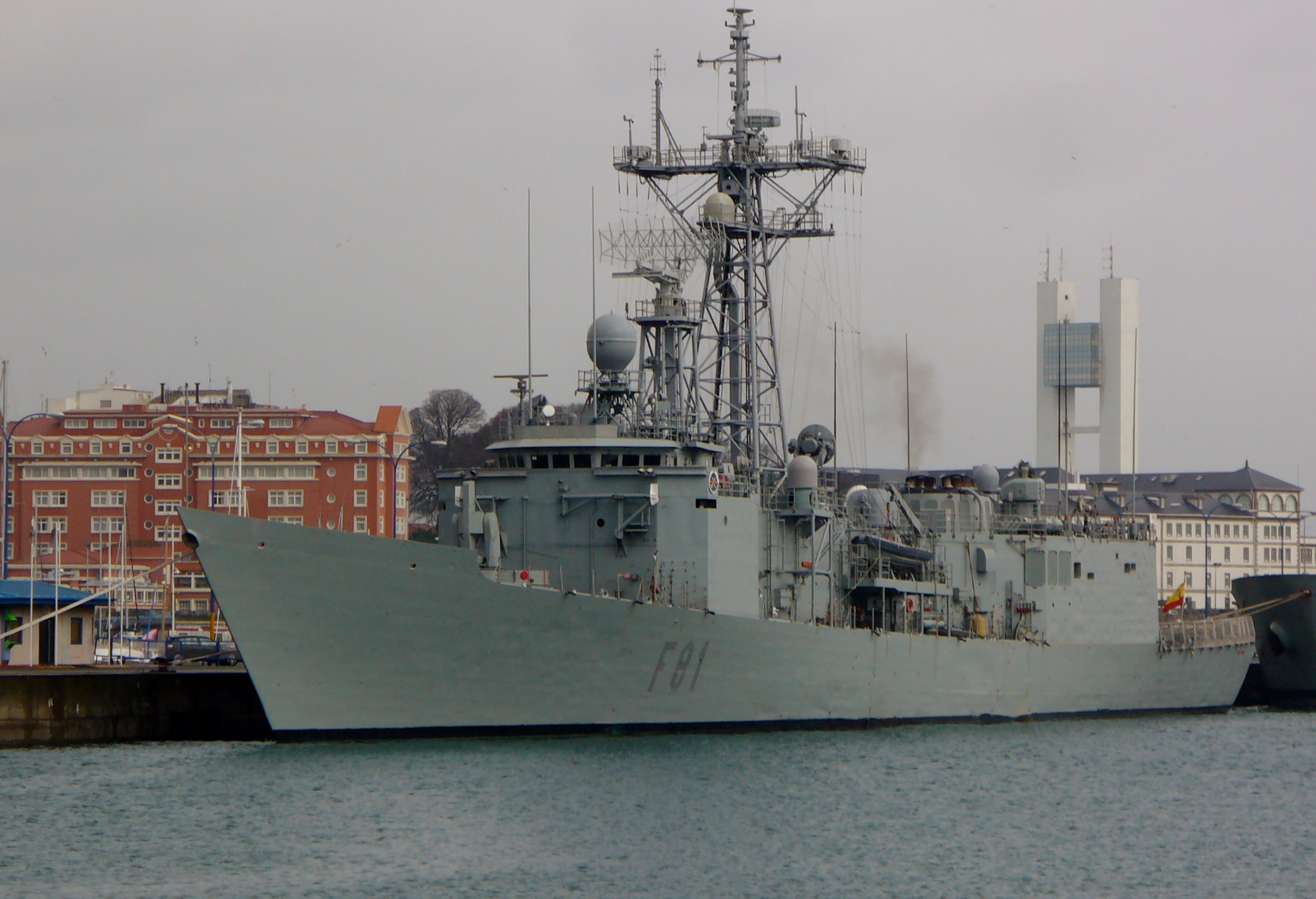 Spanish frigate Santa Maria (F 81), the first class Santa Maria